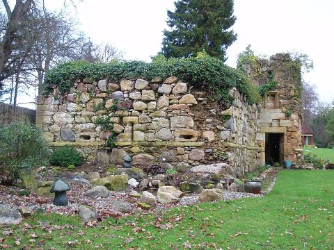 Newmore Castle, Highlands, Scotland in 2008